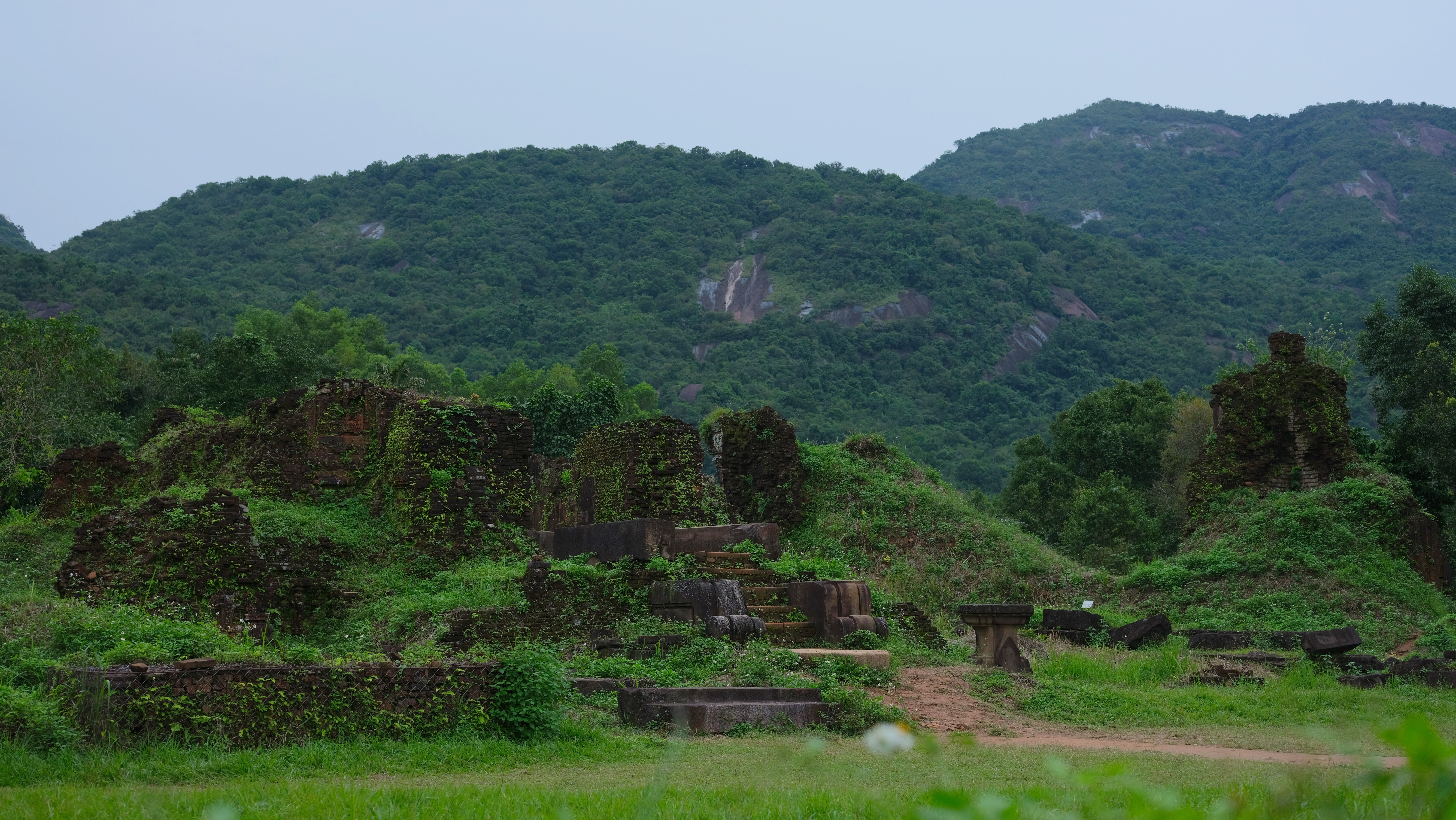 Overview of Group A, Mỹ Sơn sanctuary ruins, Vietnam.